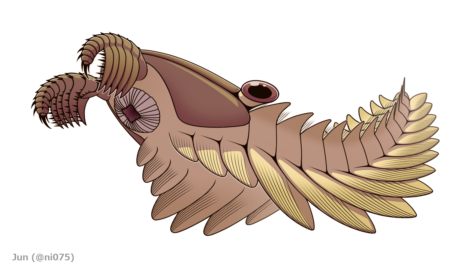 Reconstruction of Peytoia nathorsti (formerly Laggania cambria), a cambrian hurdiid radiodont (dinocaridid、stem-group arthropod).